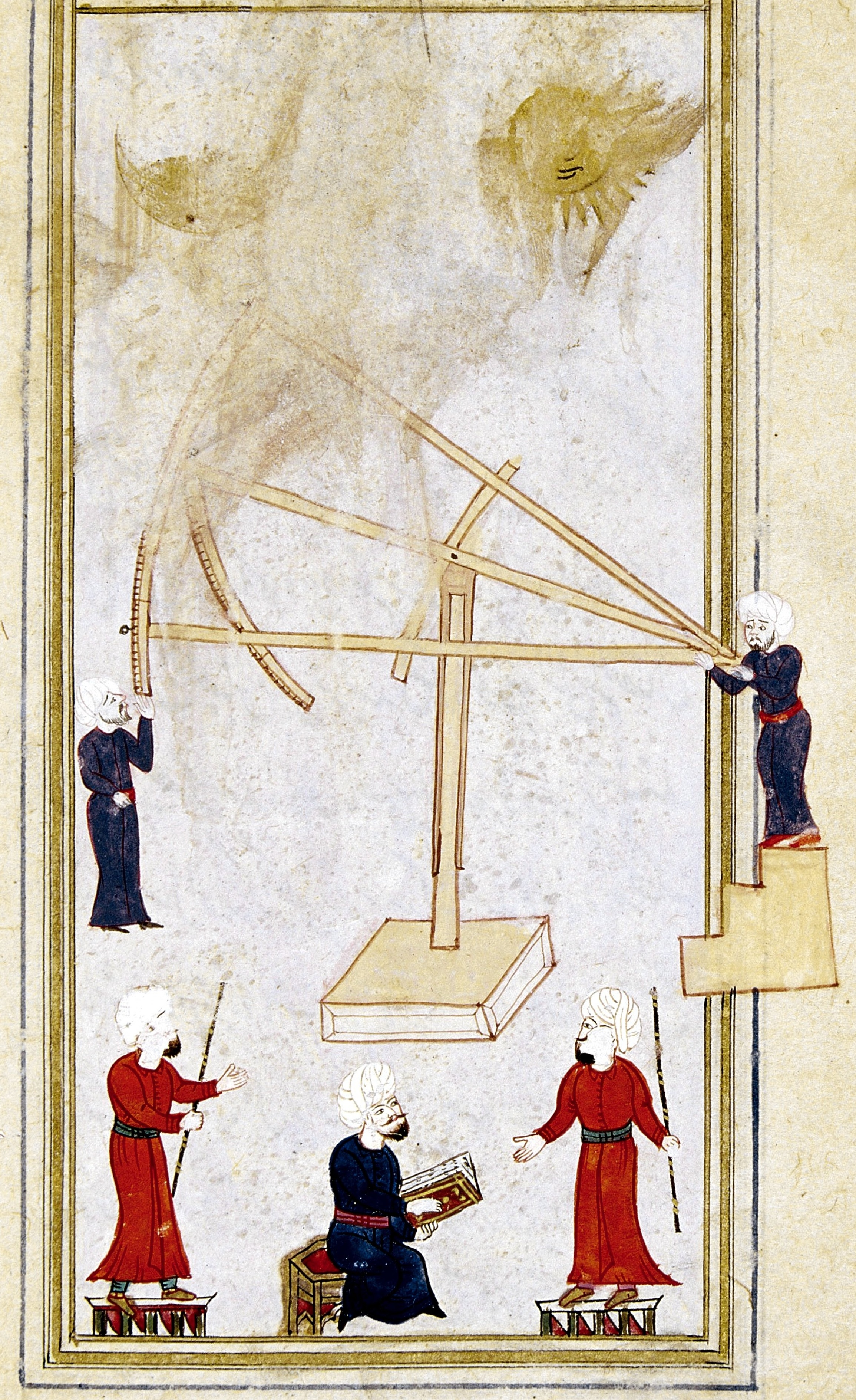 Depiction of the sextant used in astronomy and astrology by the Ottoman Observatory in Istanbul and by the office of müneccimbaşı (chief astrologer) in the 16-17th centuries.